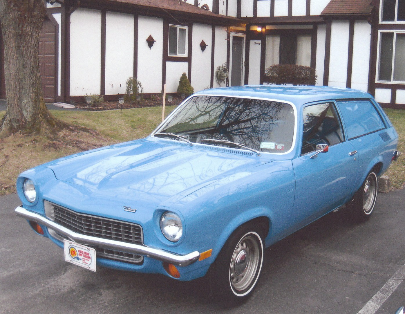 1971 Vega Panel Express